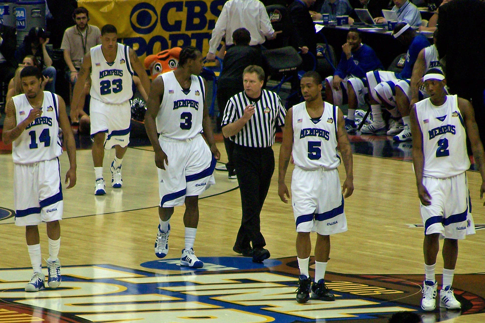 University of Memphis basketball players at the 2008 Final Four game vs. UCLA. Left to right: Chris Douglas-Roberts, Derrick Rose, Joey Dorsey, a referee, Antonio Anderson, and Robert Dozier.